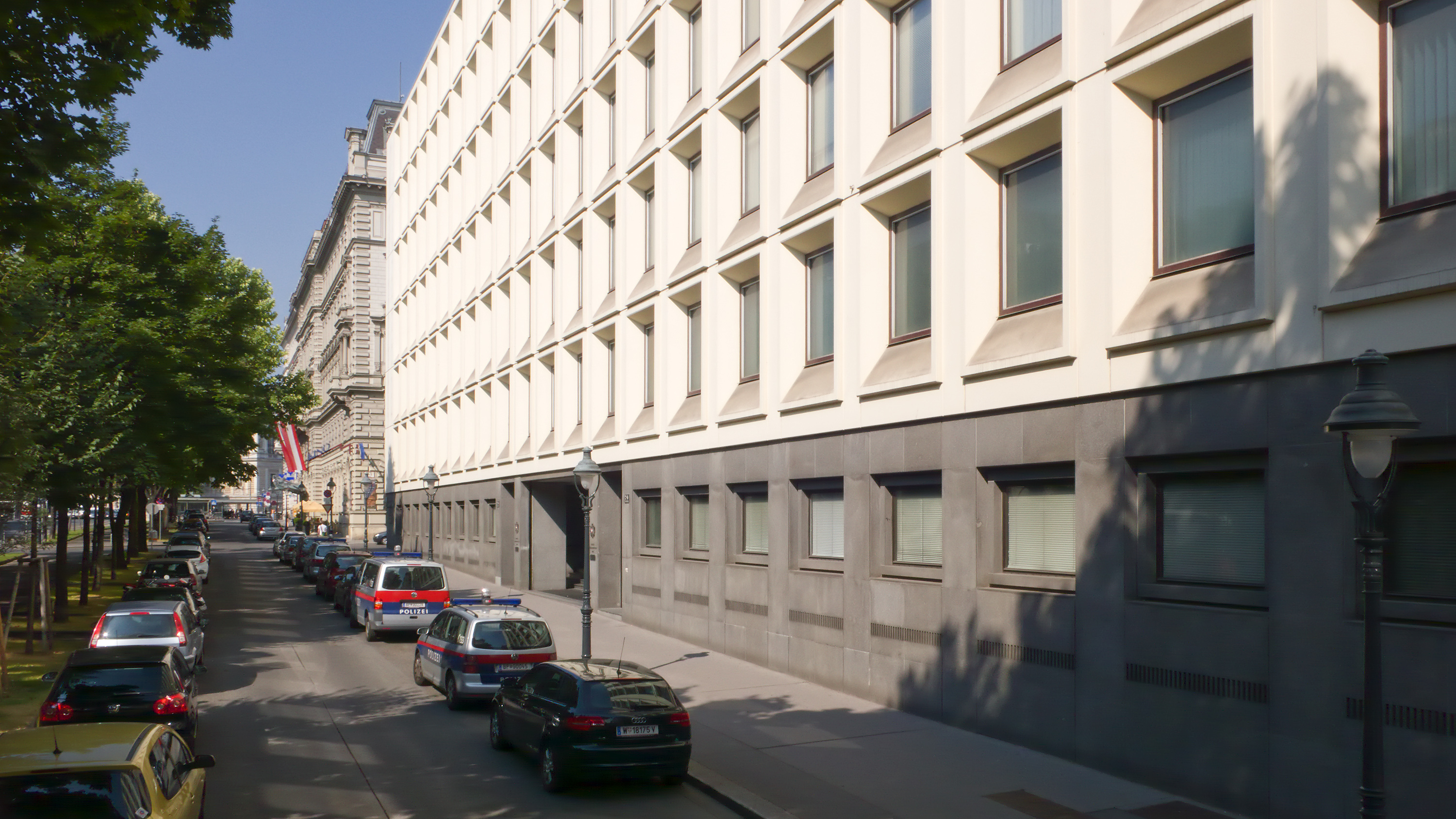 Police headquarters Polizeidirektion Wien (Schottenring 7–9) in Vienna Innere Stadt